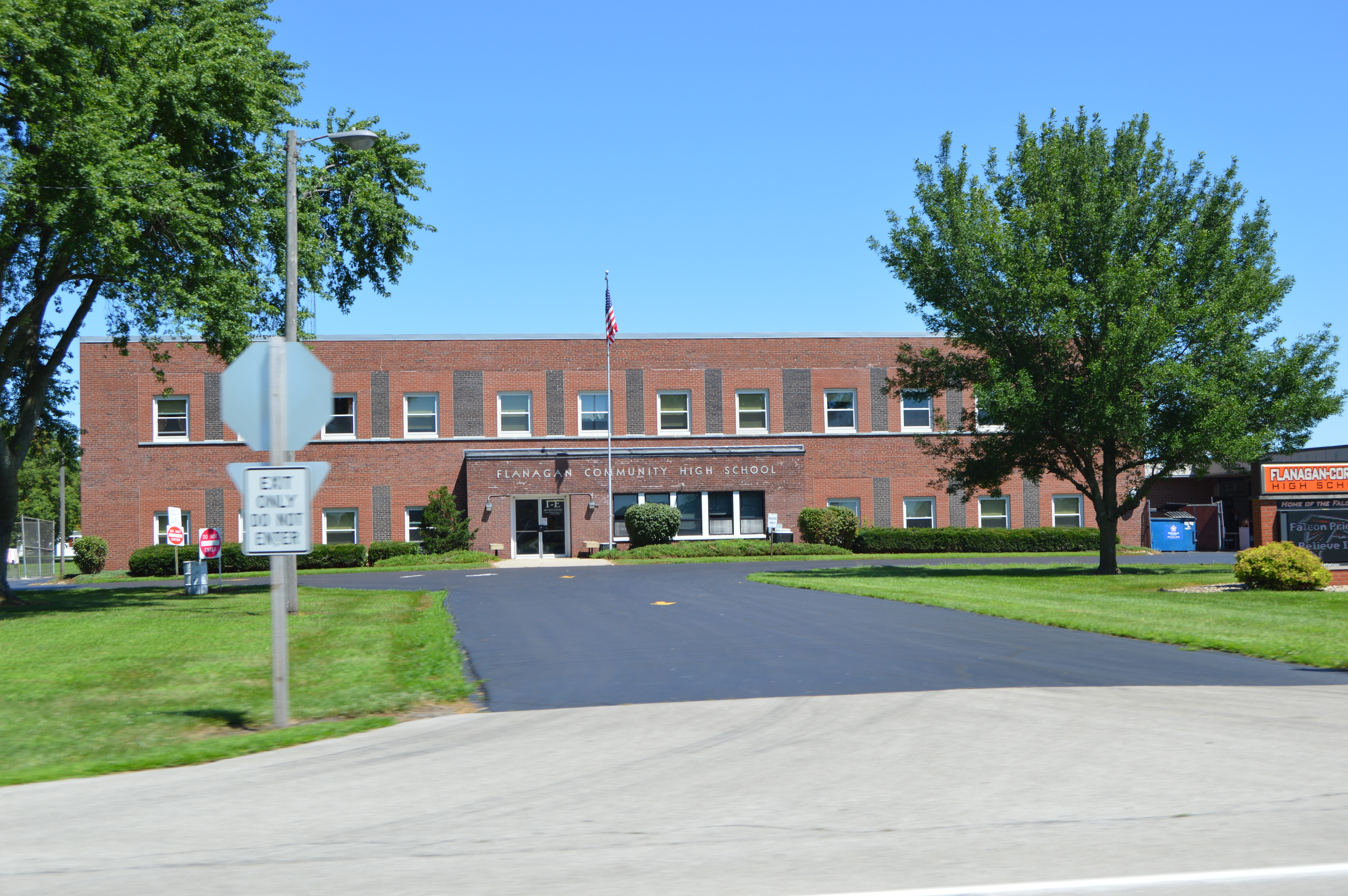 Front of the older section of the high school on Illinois Route 116 in Flanagan, Illinois, United States.